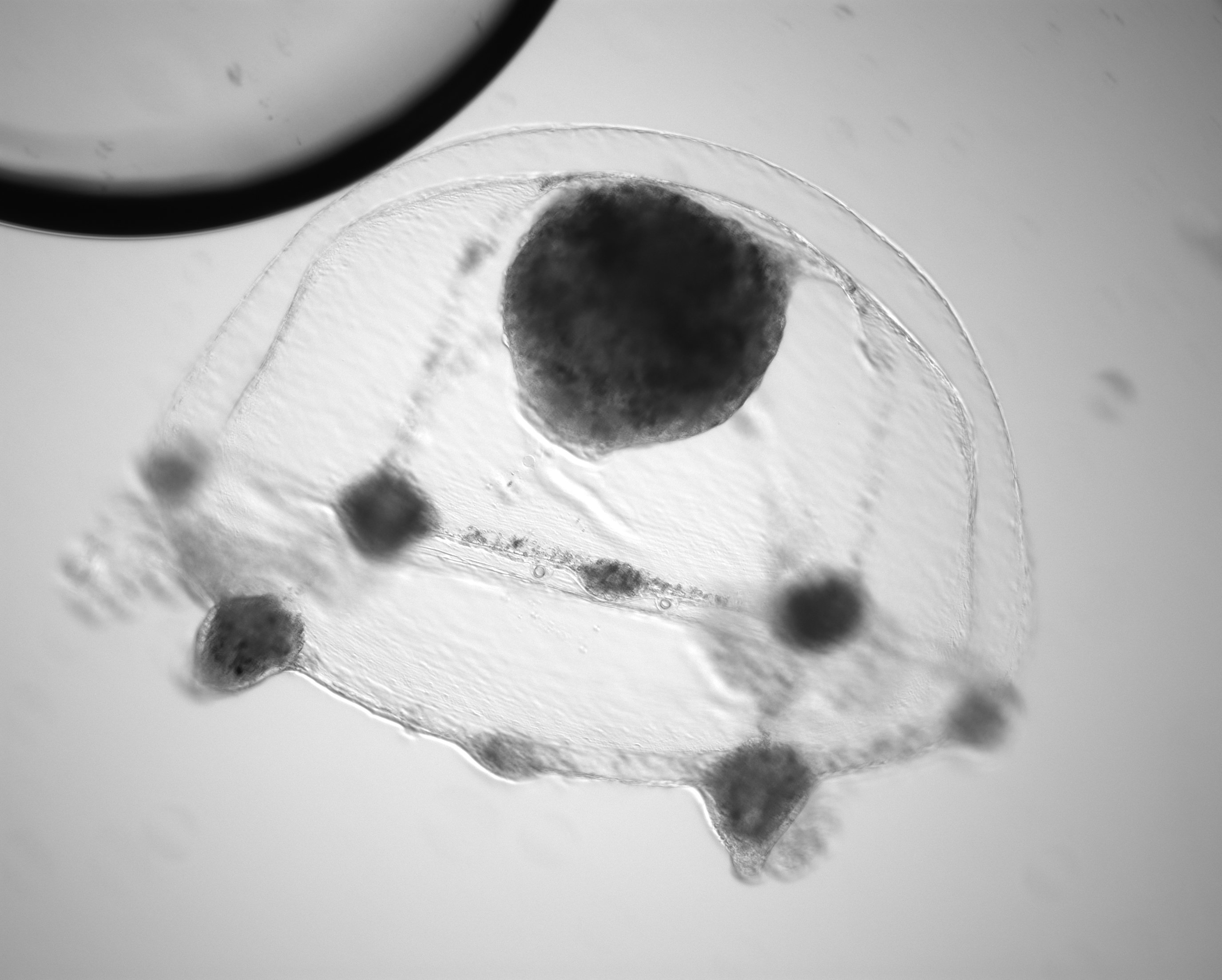 baby C. hemisphaerica medusa